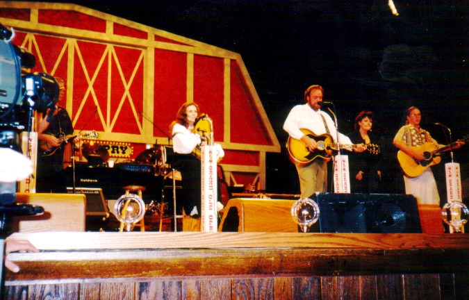 Description: June Carter Cash playing at the Grand Ole Opry. Source: Image by Larry D. Moore (User:Nv8200p) Date: July, 1999 Location: Nashville Permission: Released under the GFDL and Creative Commons licenses shown below by Larry D. Moore Other versions of this file: No